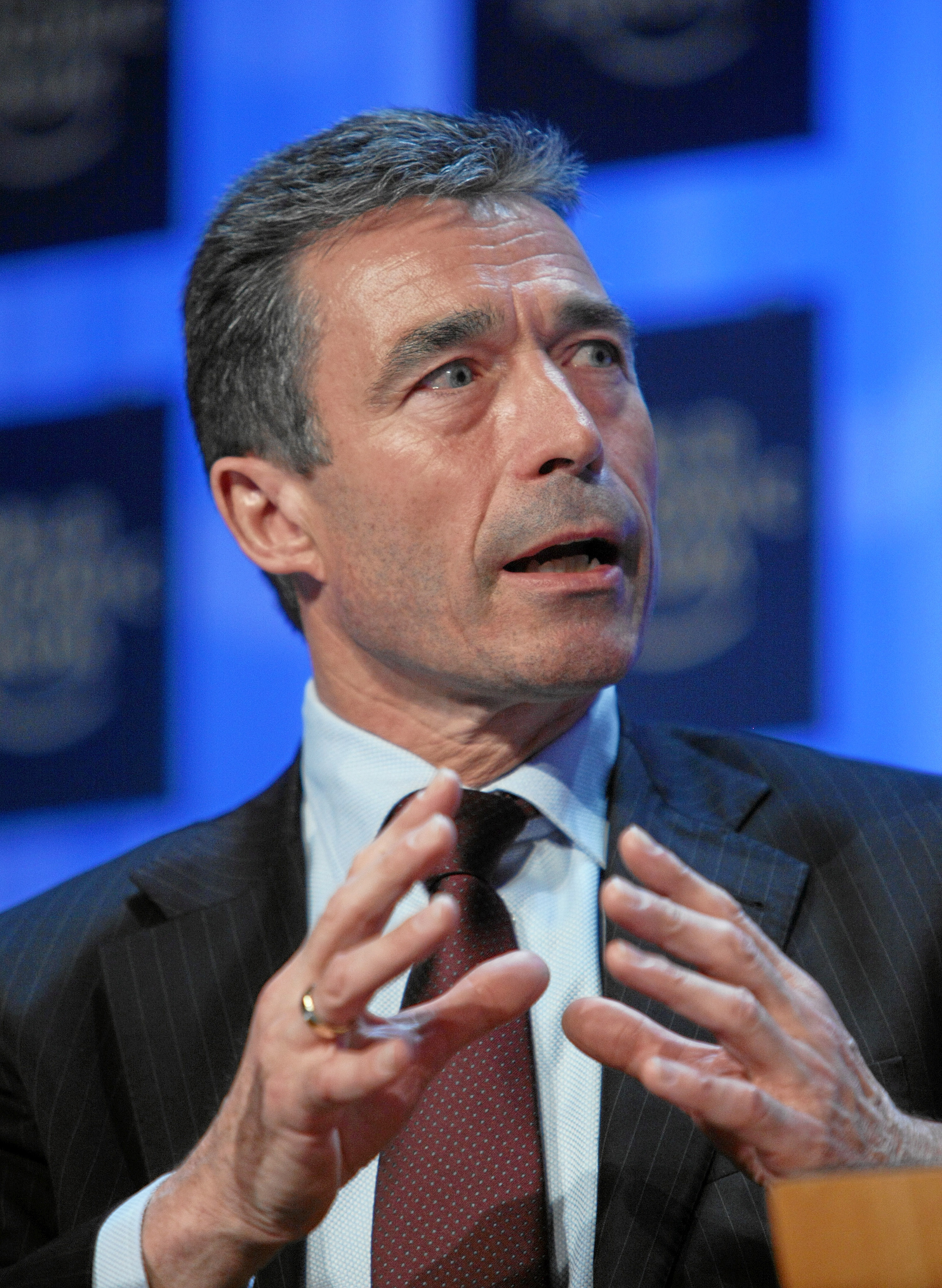 Anders Fogh Rasmussen, Prime Minister of Denmark, captured during the session 'Europe's Purpose' at the Annual Meeting 2008 of the World Economic Forum in Davos, Switzerland, January 26, 2008.